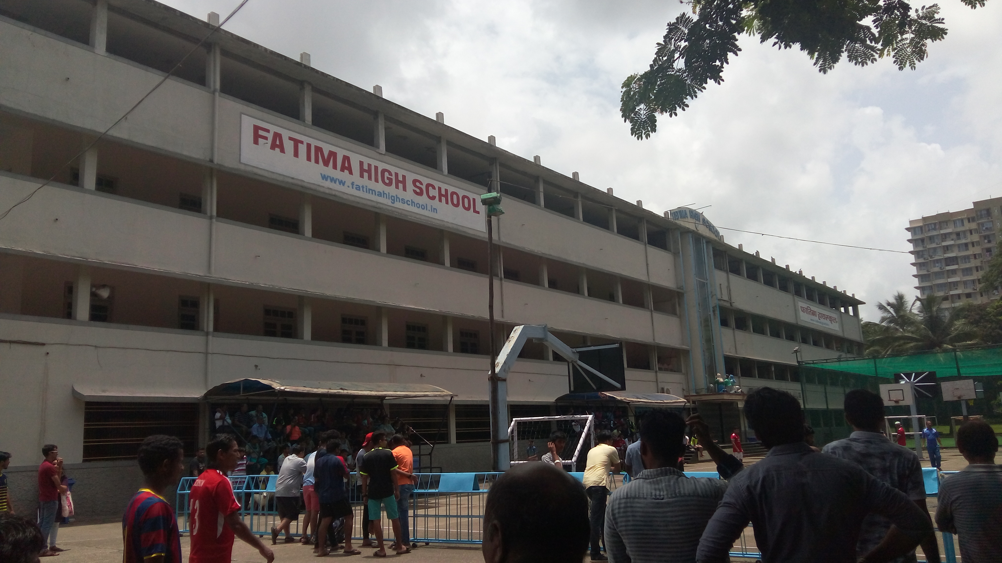 Image of Fatima High School, Vidyavihar